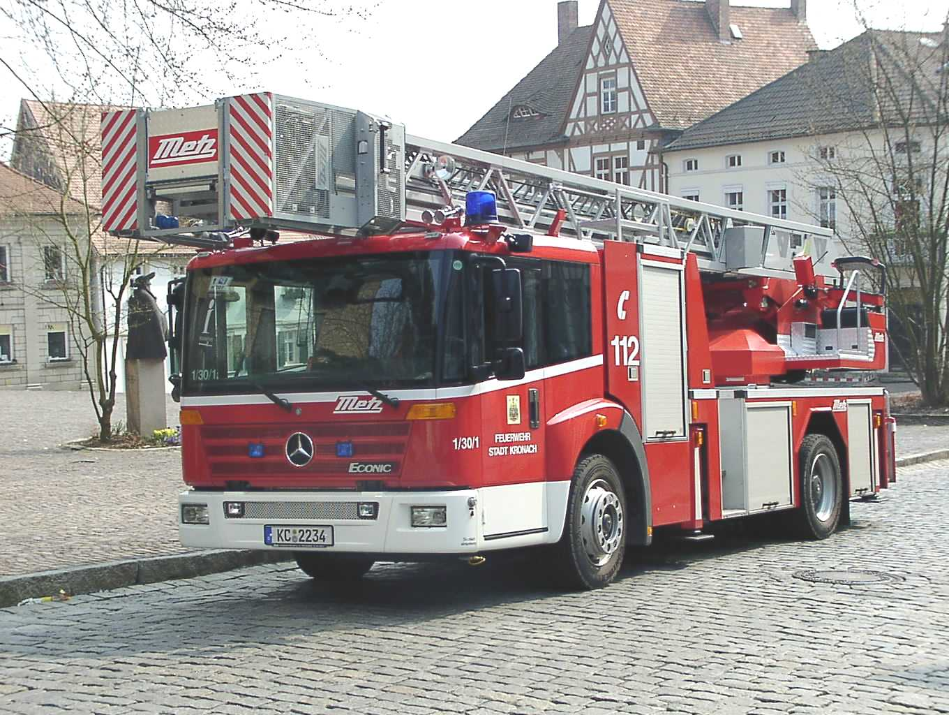 A Mercedes-Benz Firefighting turntable ladder in Kronach, Germany